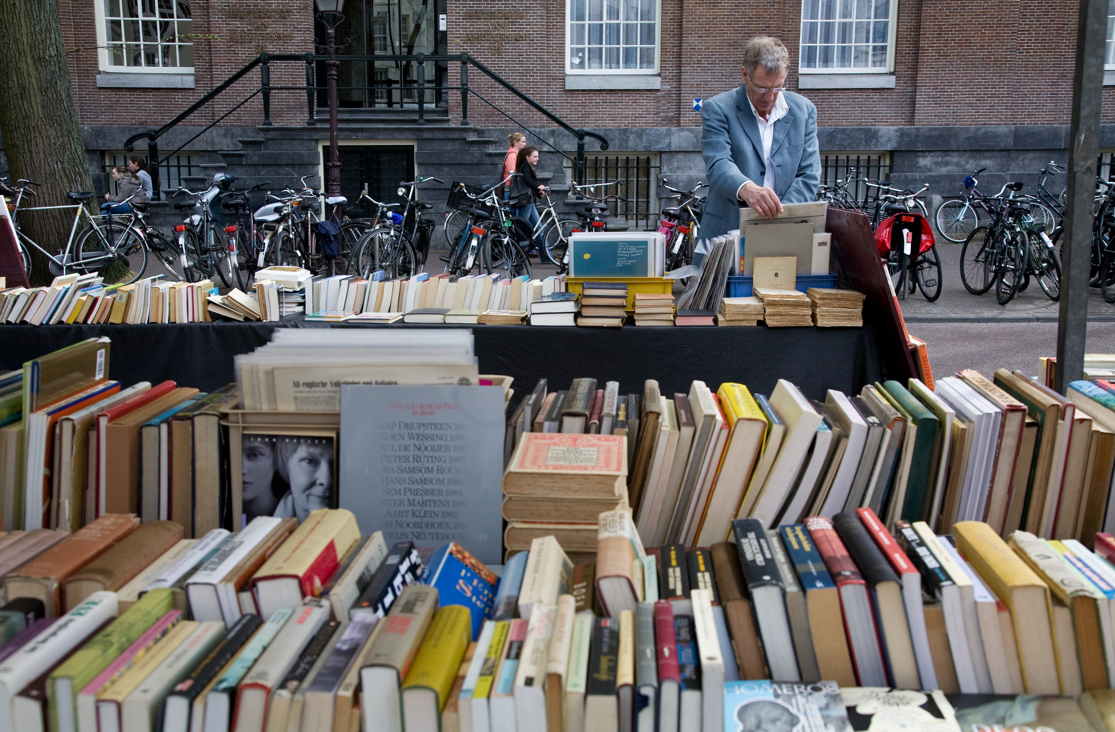 Street used books vendor stall Amsterdam, The Netherlands